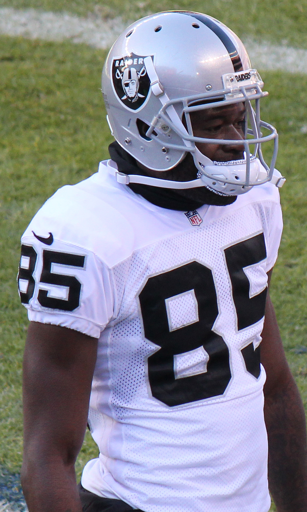 Kenbrell Thompkins, a player on the National Football League.